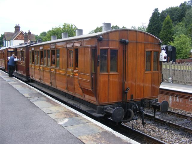 An LCDR carriage (No. 114) and an LBSC carriage (No. 661) on the Bluebell Railway, a heritage line in England. Photograph taken at Kingscote station.